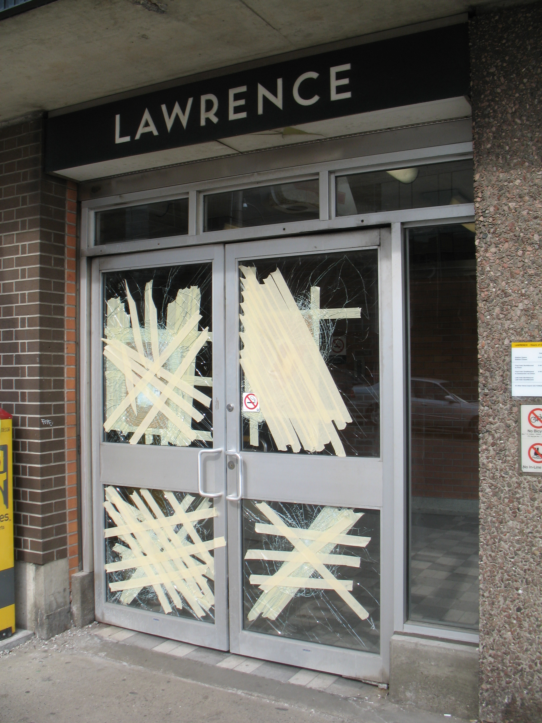 Damage caused by customers during the TTC strike of April 2008